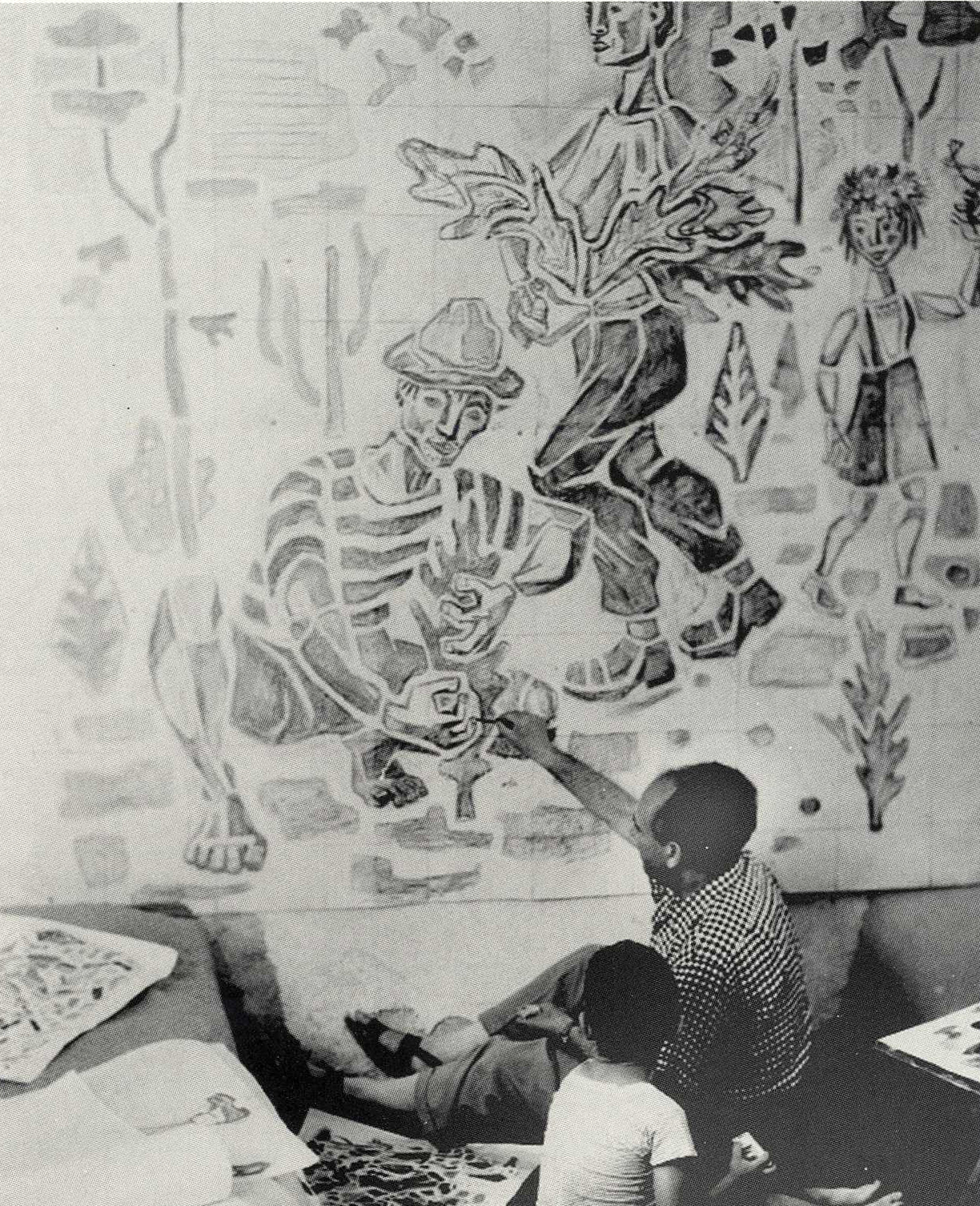 Miron Sima working om a Relief for Dgania Kibuzz. photo by David Rubinger.